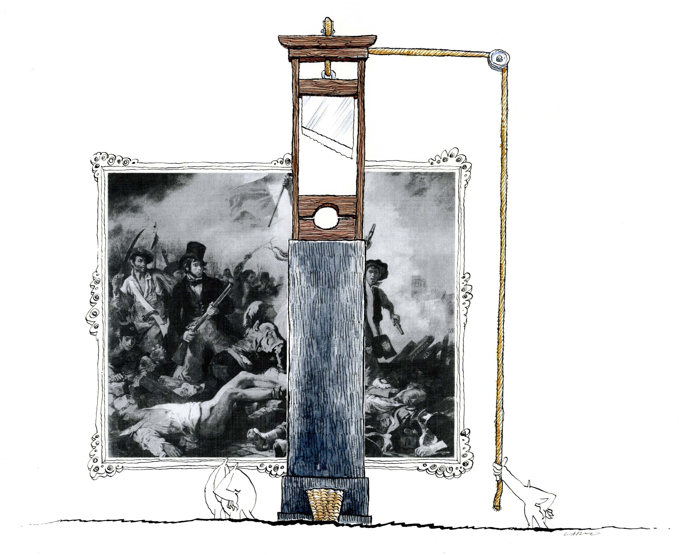 published in FORUM Nr. 296/2010